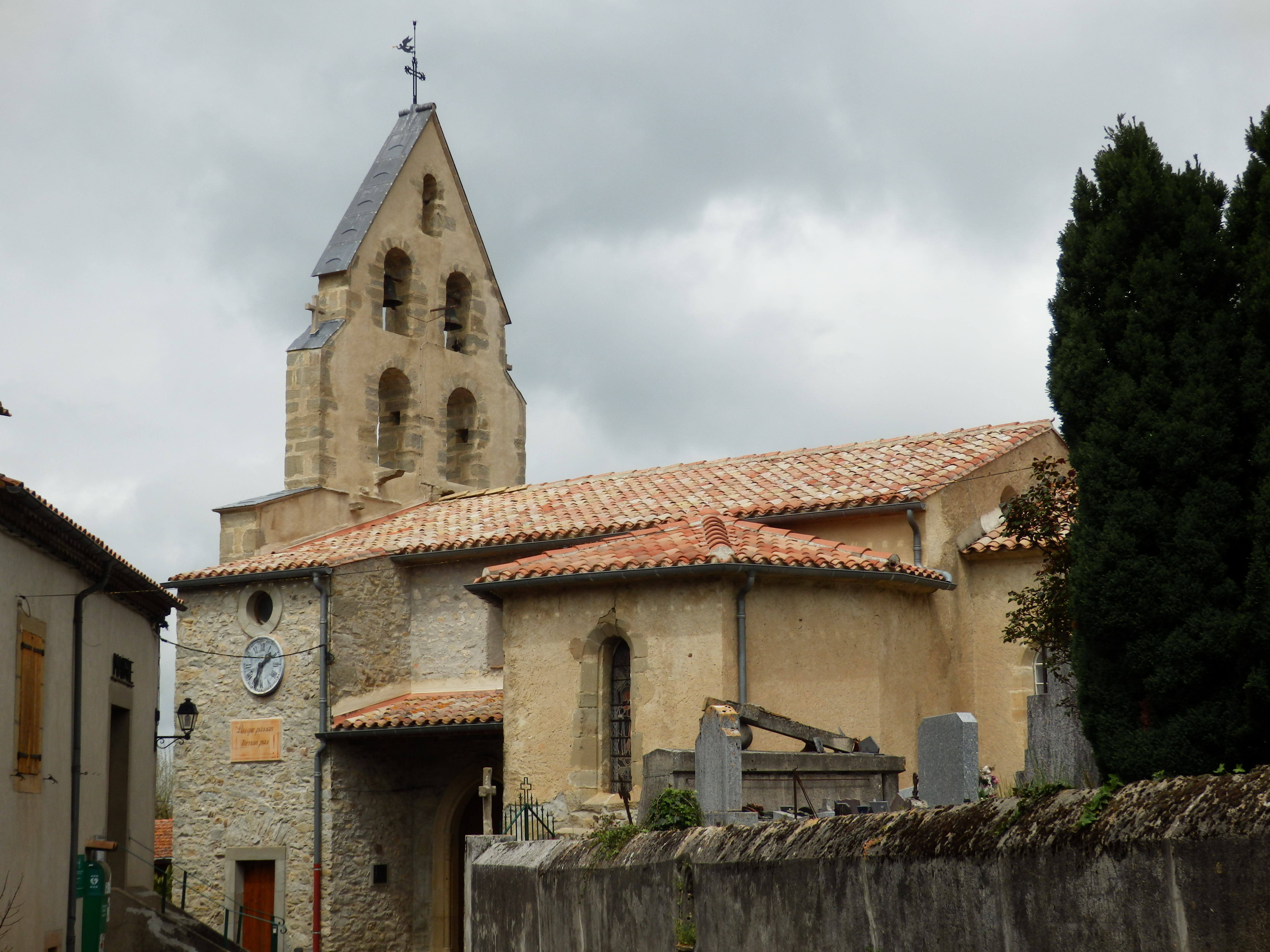 Bell Gable in Courtauly, Aude, France